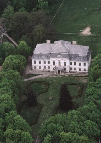 Lovászpatona, Hungary, aerialphotography (Somogyi Mansion)